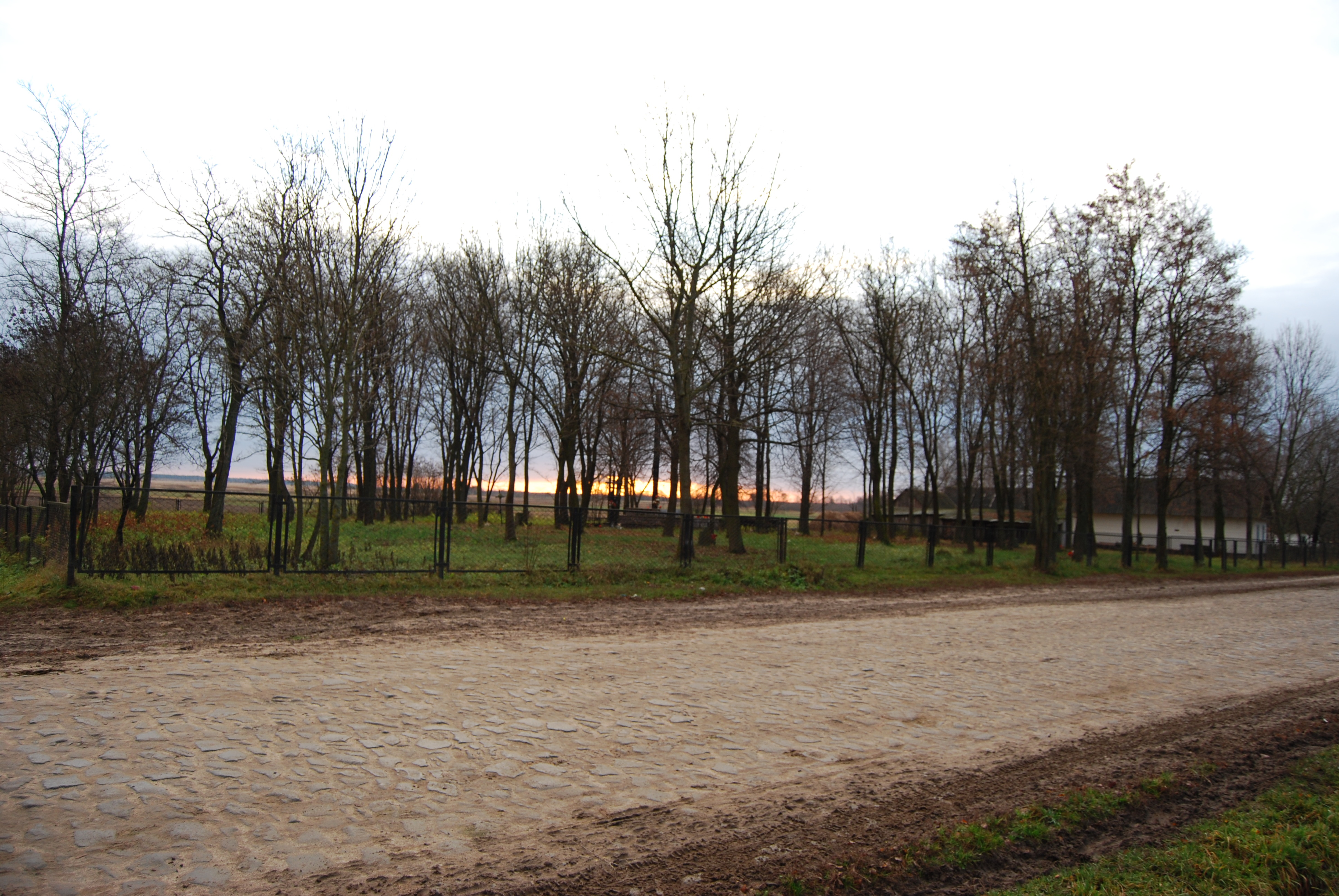 Catholik cemetery in Huta Stepańska.